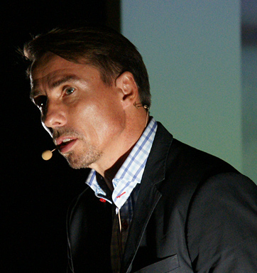 Arne Nielsson, Danish coach, writer and former canoer, winner of several world championship titles